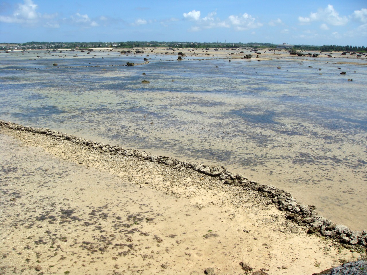 Katsu, the stone wall for fishing, Shimoji Island, Okinawa Prefecture, Japan.